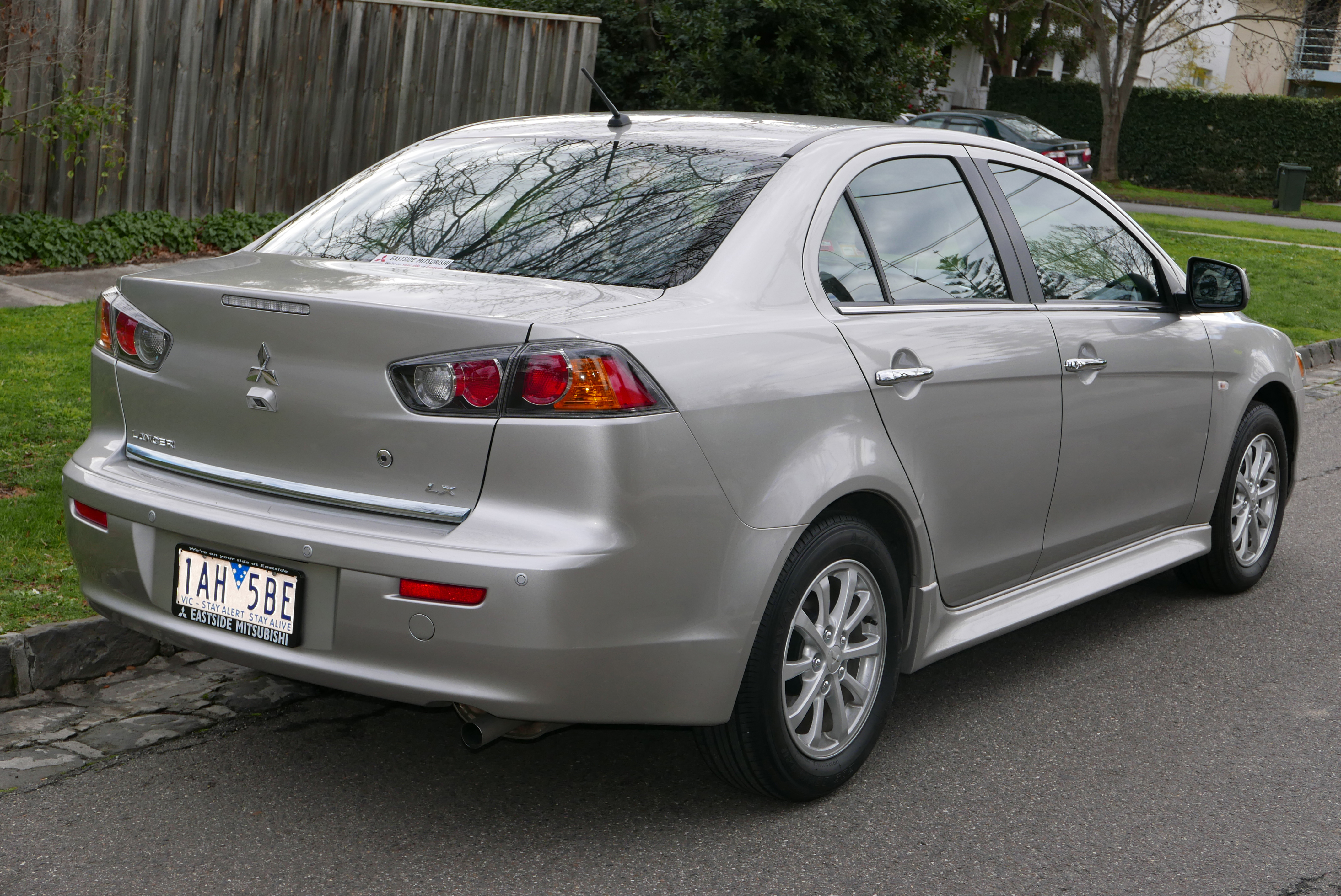 2013 Mitsubishi Lancer (CJ MY14) LX sedan. Photographed in Kew, Victoria, Australia. Vehicle registration enquiry resultsJurisdictionVictoriaRegistration1AH5BEChassis codeJMFSTCY4AEU000707Engine code4B11LH9873Compliance date2013-08Year of manufacture2013